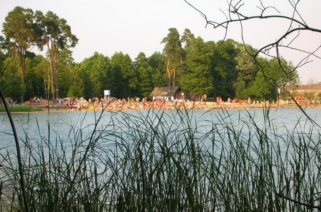 Borówno Lake